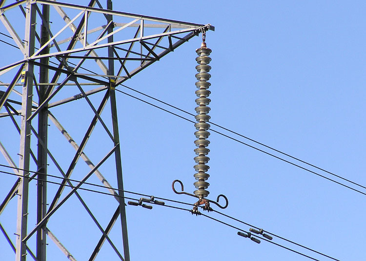 Detail of the insulator string (the vertical string of discs) on a 275,000 volt suspension tower near Thornbury, South Gloucestershire, England, United Kingdom. The small pairs of black weights hanging from the line near the insulator are "Stockbridge dampers"; they prevent the aeolian vibration that causes the wires to "sing" in the wind.